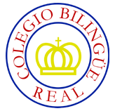 This is a logo of Colegio Bilingue Real.